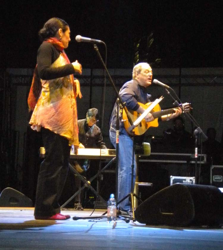 Toquinho and badi Assad in Cremona, Italy, August, 5th, 2010